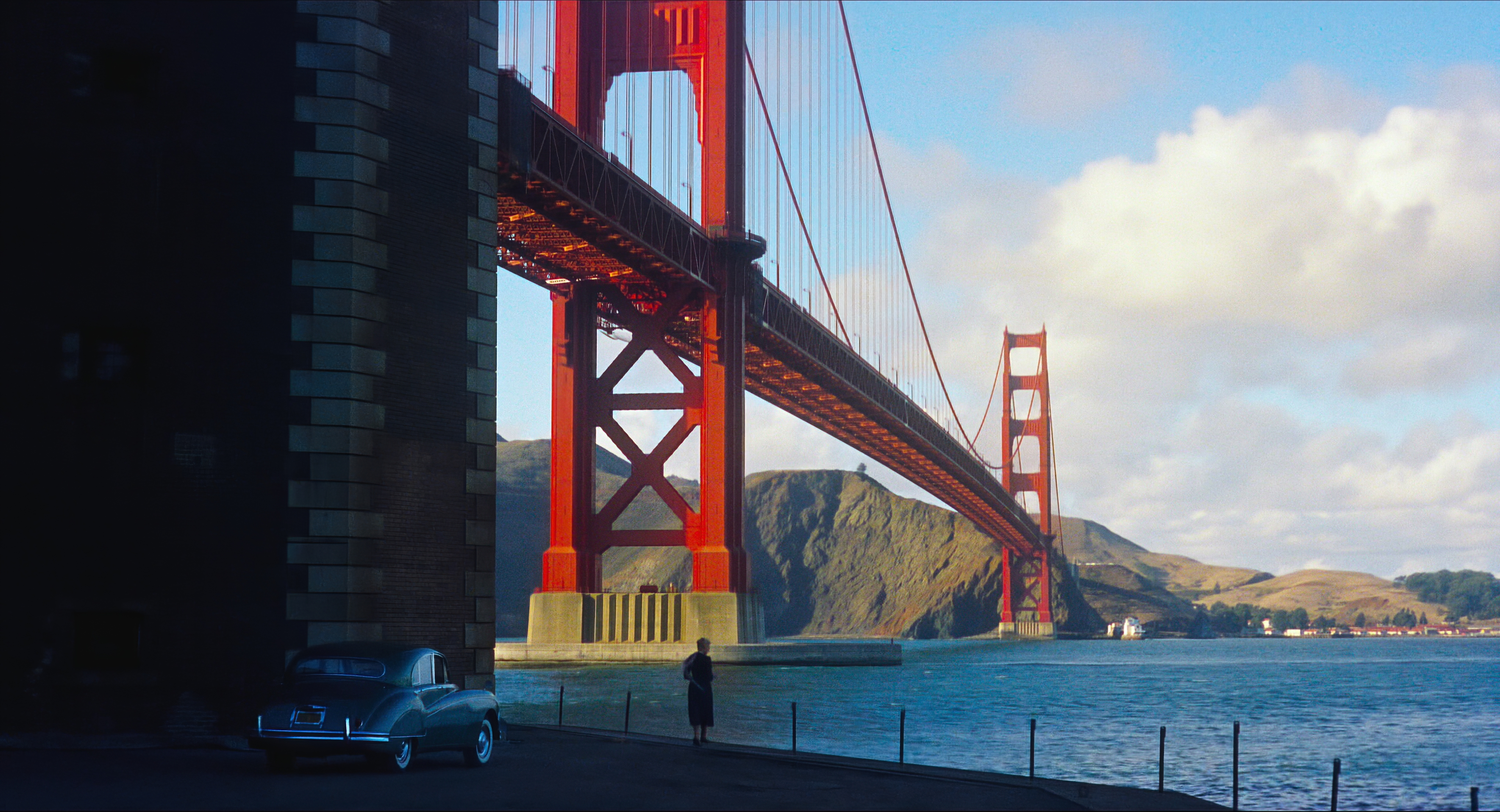 Screenshot from the original 1958 theatrical trailer for the film Vertigo Frame taken from MPEG2. Note: This version of the original 1958 theatrical trailer is of significantly lower quality than the 1996 restoration theatrical trailer.